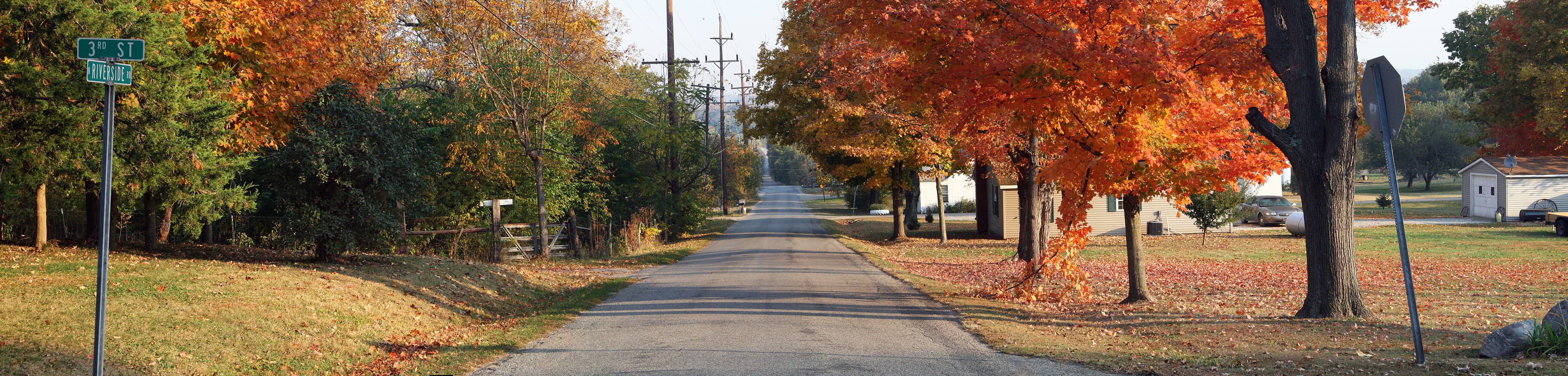 Riverside Road (Fountain County Road 500 East) in the small town of Riverside, Indiana. Photo looks north from the intersection with Third Street toward the railroad, beyond which the road heads toward the Wabash River and the neighboring town of Independence.